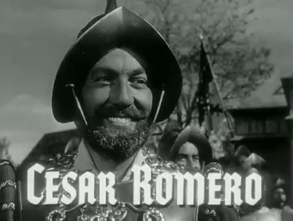 Cesar Romero Captain from Castile Henry King 1947